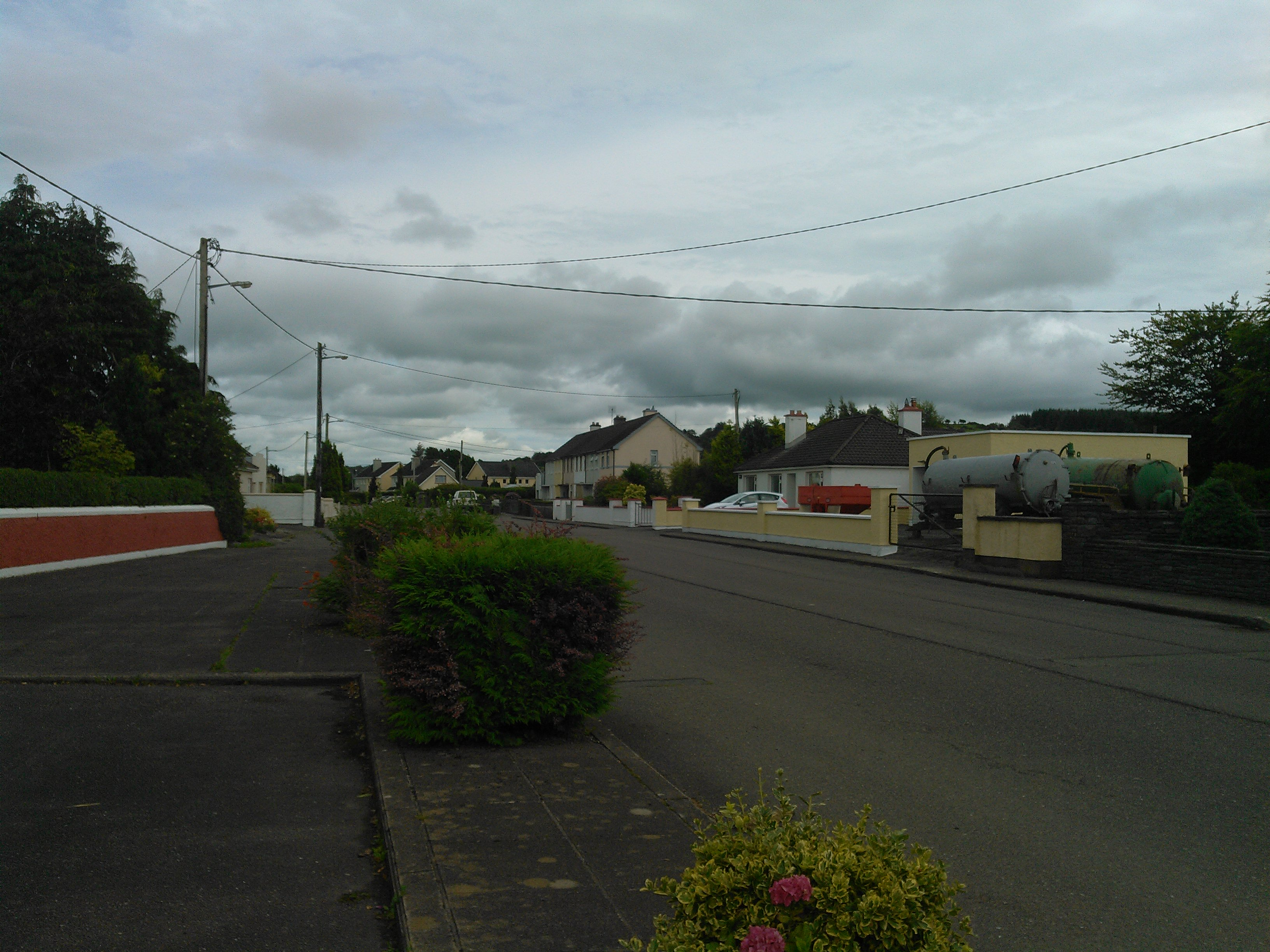 Inchigeelagh main street